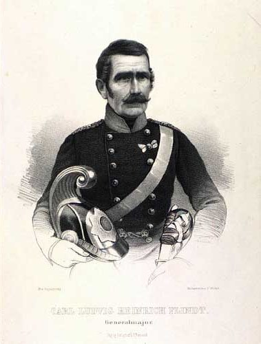 Carl Ludvig Henrik Flindt (1792-1856), Danish Major General